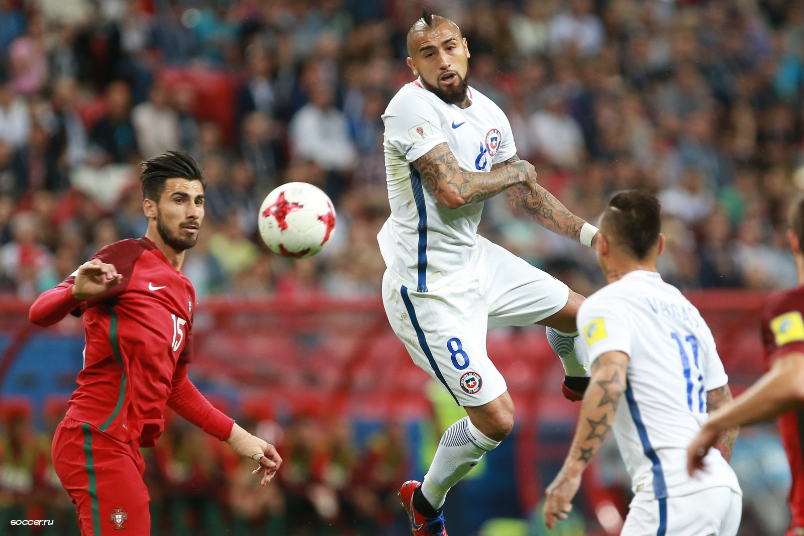 Portugal - Chile, 28 Jun 2017